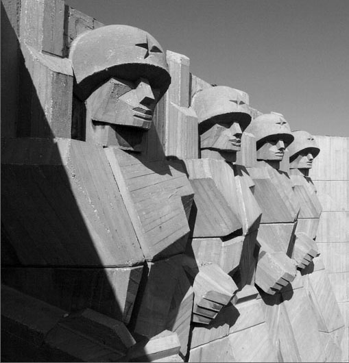 Monumet of Bugarian-Soviet friendship, Varna, Bulgaria via © 2009 NIKOLA MIHOV Photography